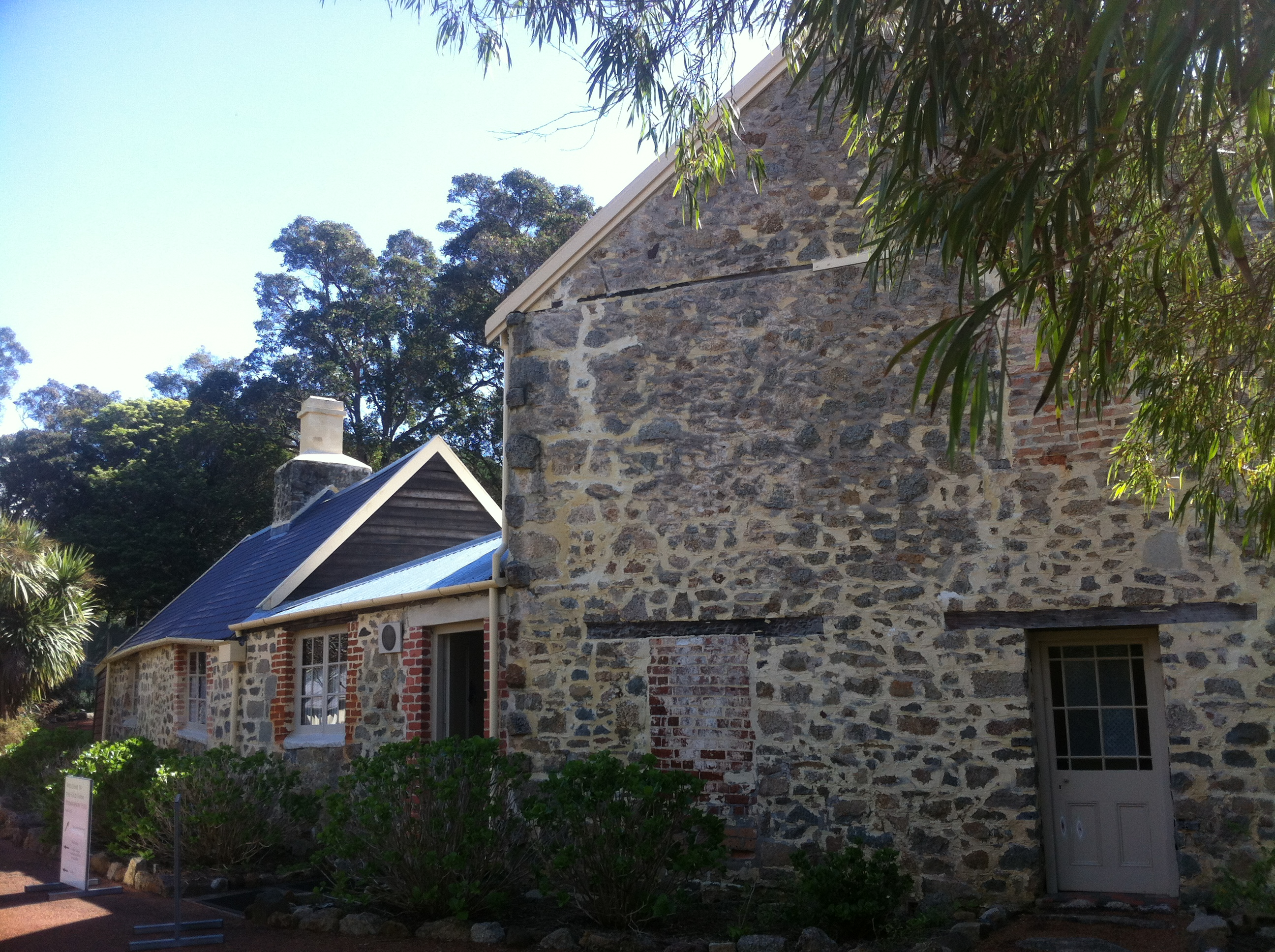 Farmhouse at Strawberry Hill